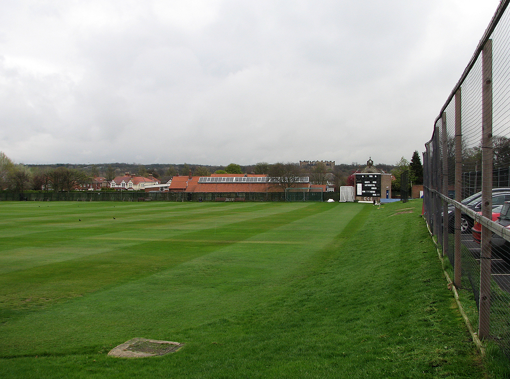 Chester-le-Street: Ropery Lane Cricket Ground A view along the boundary towards the scoreboard, with the bellcote of St Cuthbert's RC Church above it and Lumley Castle on the skyline to the left. Chester-le-Street CC plays in the North Eastern Premier League. One County Championship match was played here, in 1993, Durham's second season as a first-class county: Durham (308 and 164) lost to Nottinghamshire (629) by an innings and 157 runs.